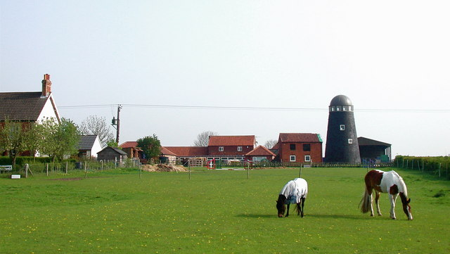 Mill Farm, Barnetby le Wold. Looking north-northeast from the public footpath between Barnetby and Kirmington Vale.